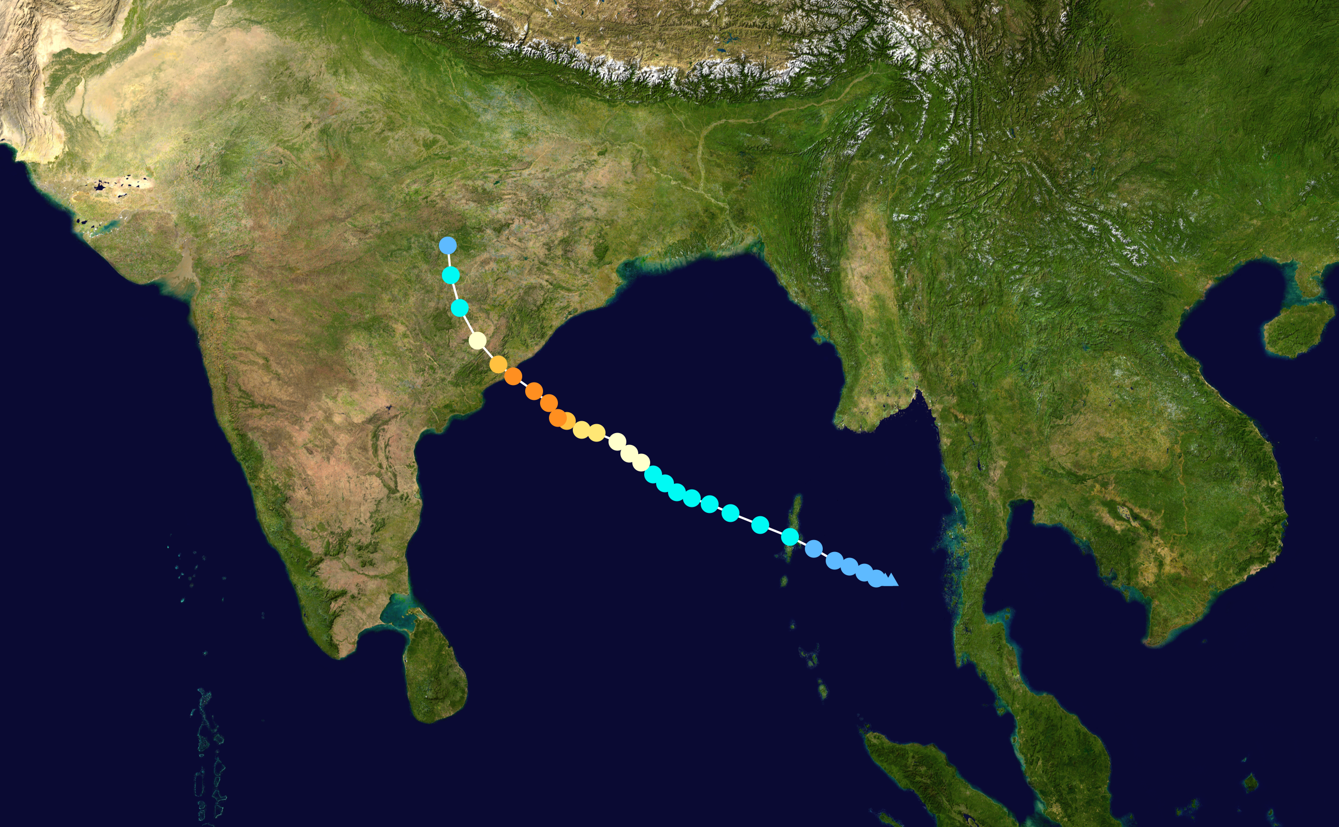 Track map of Extremely Severe Cyclonic Storm Hudhud of the 2014 North Indian Ocean cyclone season. The points show the location of the storm at 6-hour intervals. The colour represents the storm's maximum sustained wind speeds as classified in the Saffir–Simpson scale (see below), and the shape of the data points represent the nature of the storm, according to the legend below. Saffir–Simpson scale Tropical depression≤38 mph≤62 km/h Category 3111–129 mph178–208 km/h Tropical storm39–73 mph63–118 km/h Category 4130–156 mph209–251 km/h Category 174–95 mph119–153 km/h Category 5≥157 mph≥252 km/h Category 296–110 mph154–177 km/h Unknown Storm type Tropical cyclone Subtropical cyclone Extratropical cyclone / Remnant low / Tropical disturbance / Monsoon depression